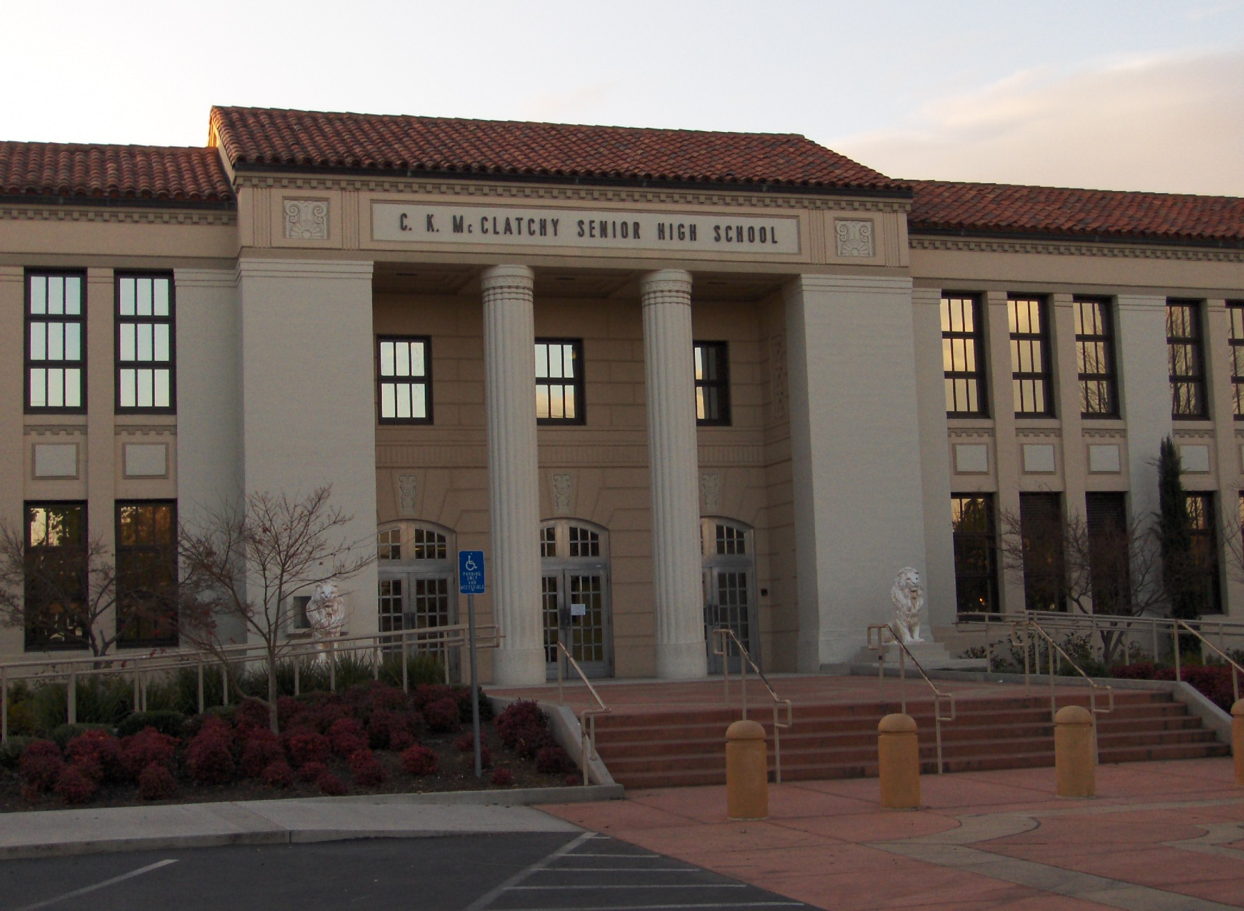 C.K. McClatchy High School in Sacramento, CA. The high school was established in 1937 and designed in the Classical Revival architectural style.